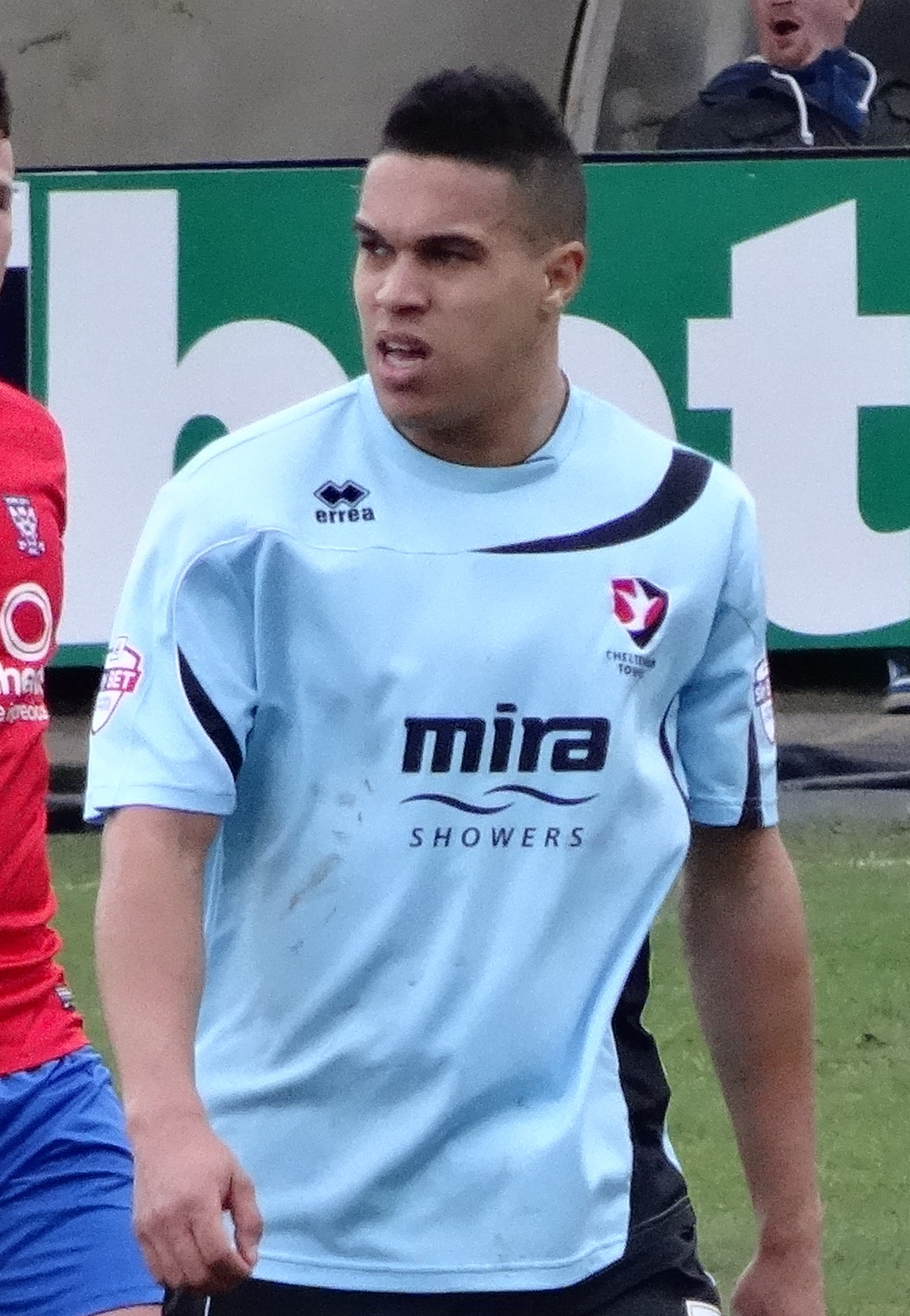 Troy Brown.